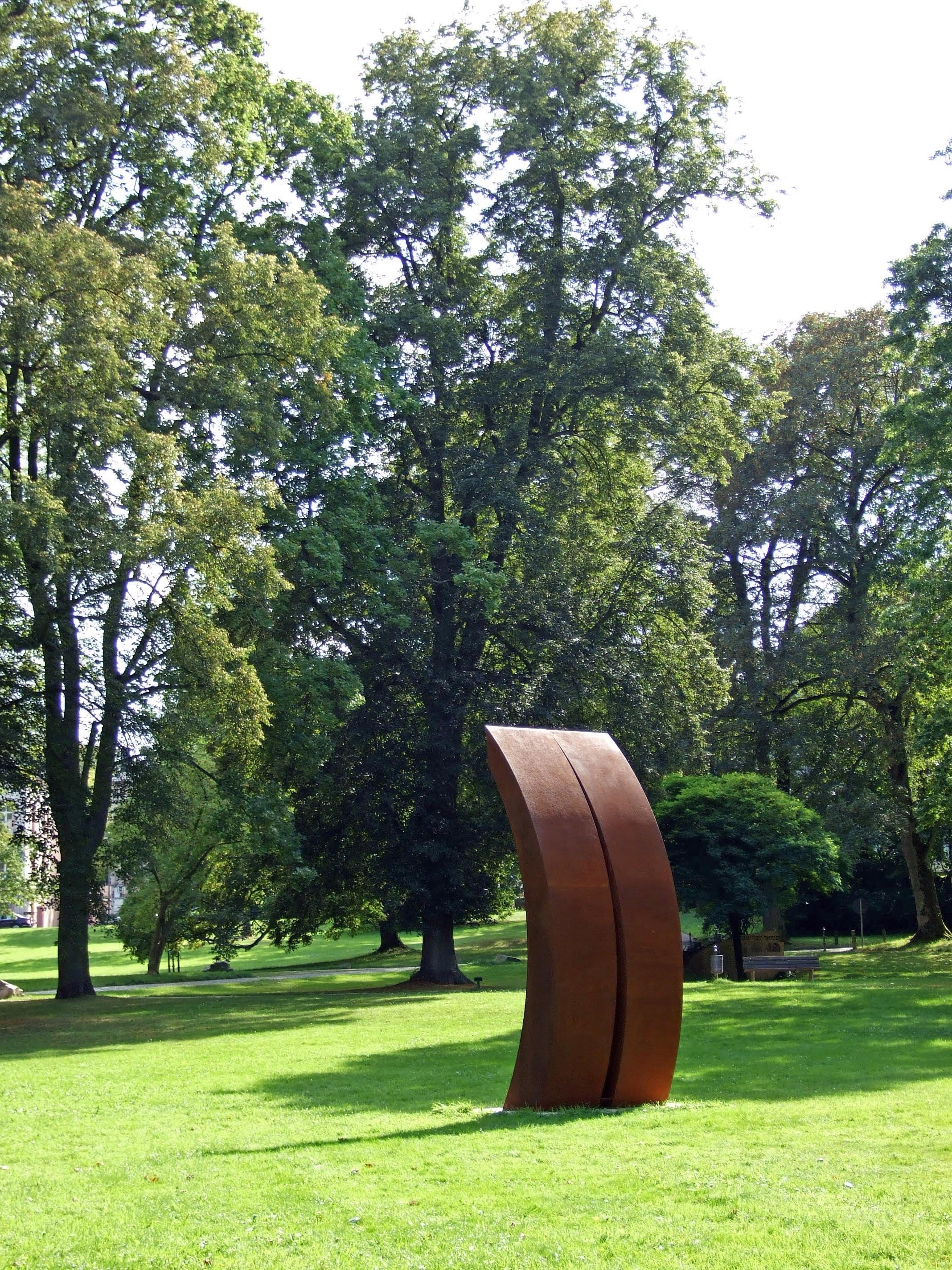 "Longo Monolith" from Beverly Pepper at "blickachsen 7", 2009, "Kurpark" of Bad Homburg, Hesse, Germany